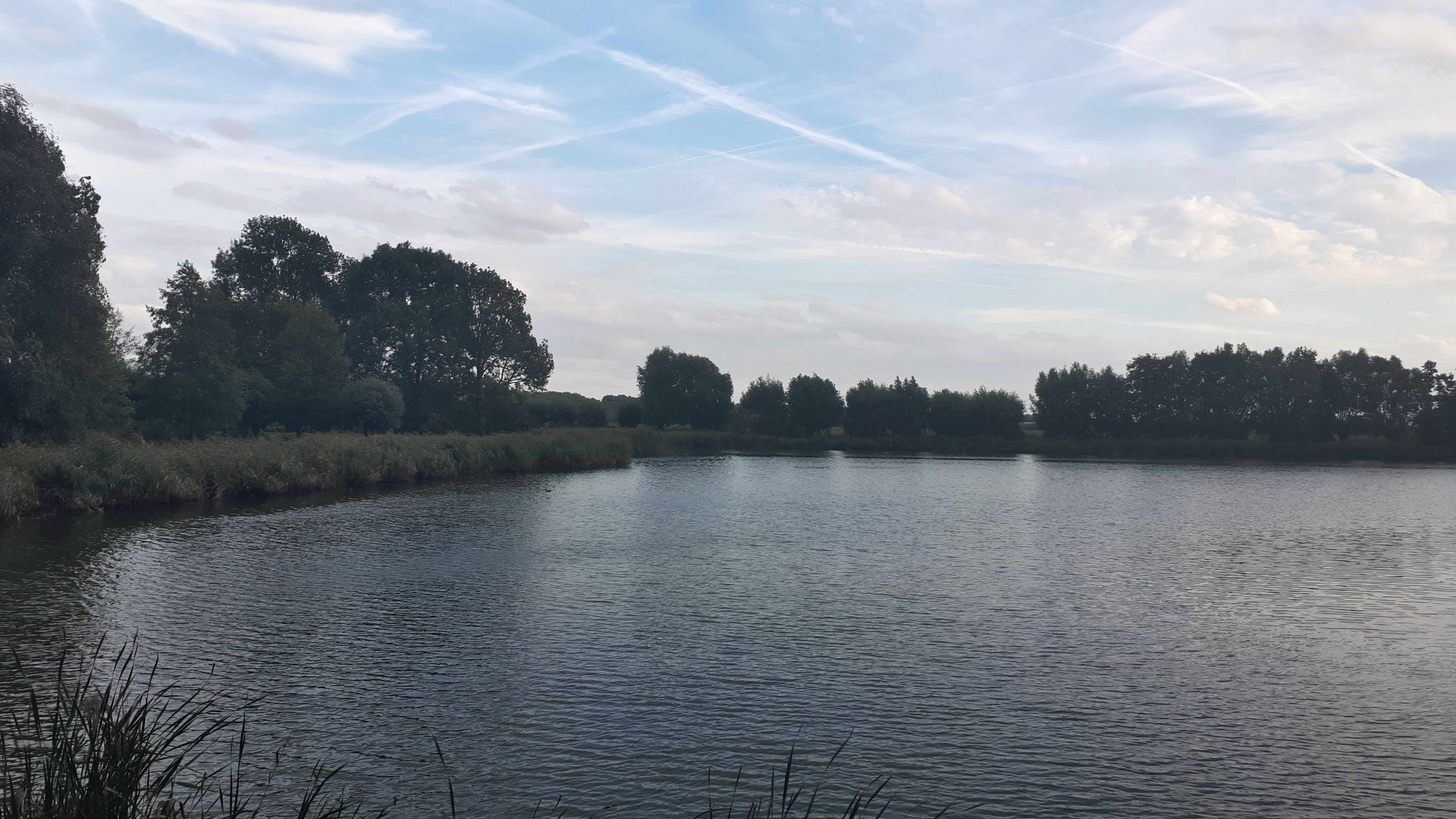 Grote Geul